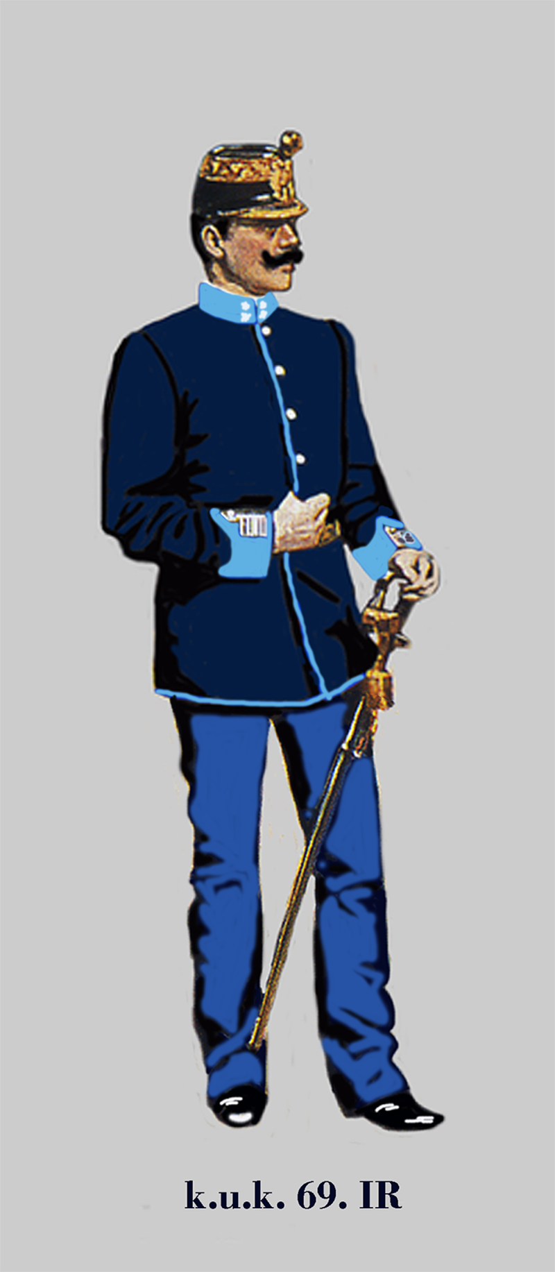 1st Lieutenant of the Austria-Hungarian (k.u.k.). 69th hungarian Infantry Regiment in Parade dress. 1914